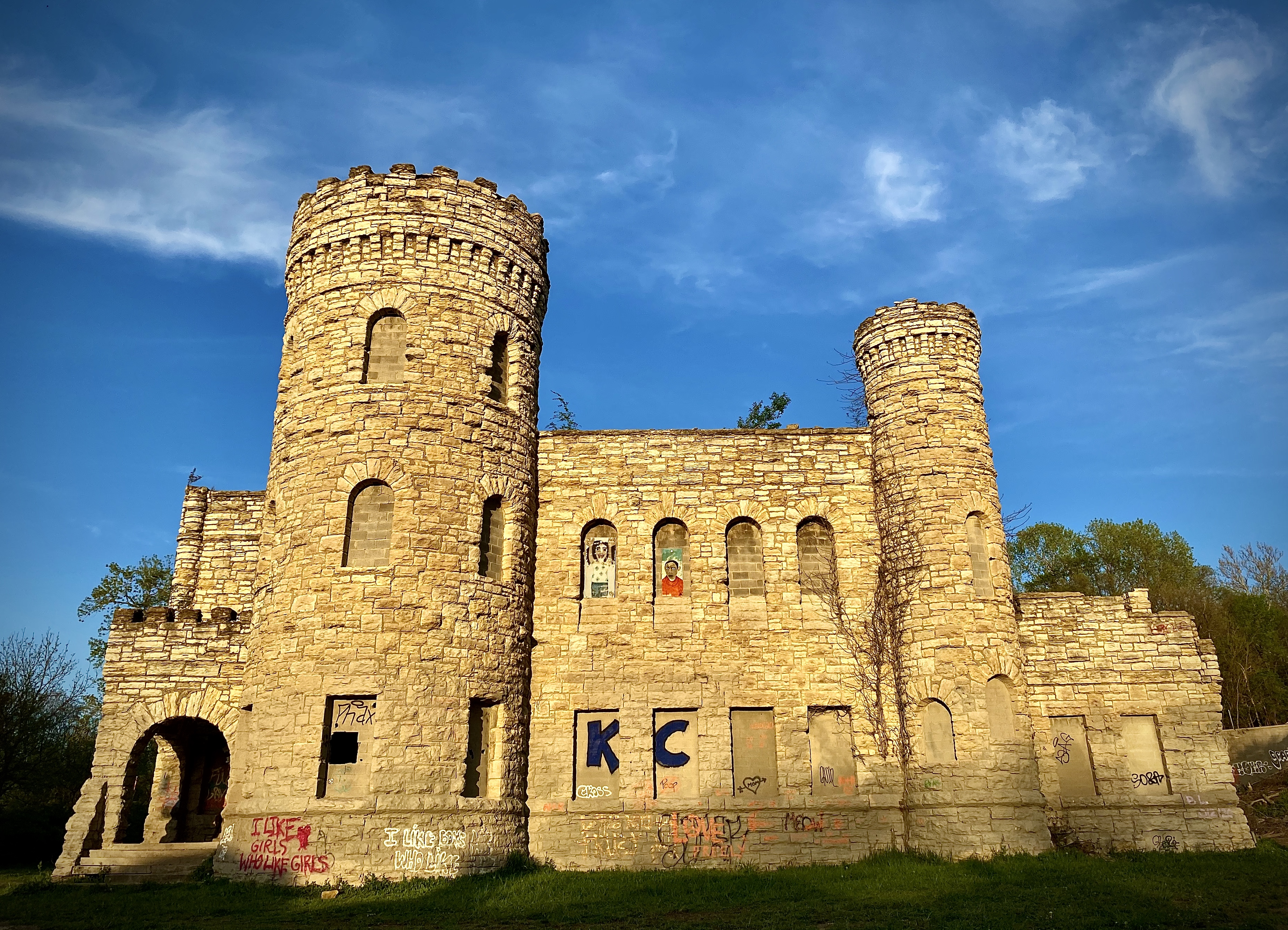 City Workhouse Castle in Kansas City, Missouri, front view in 2020